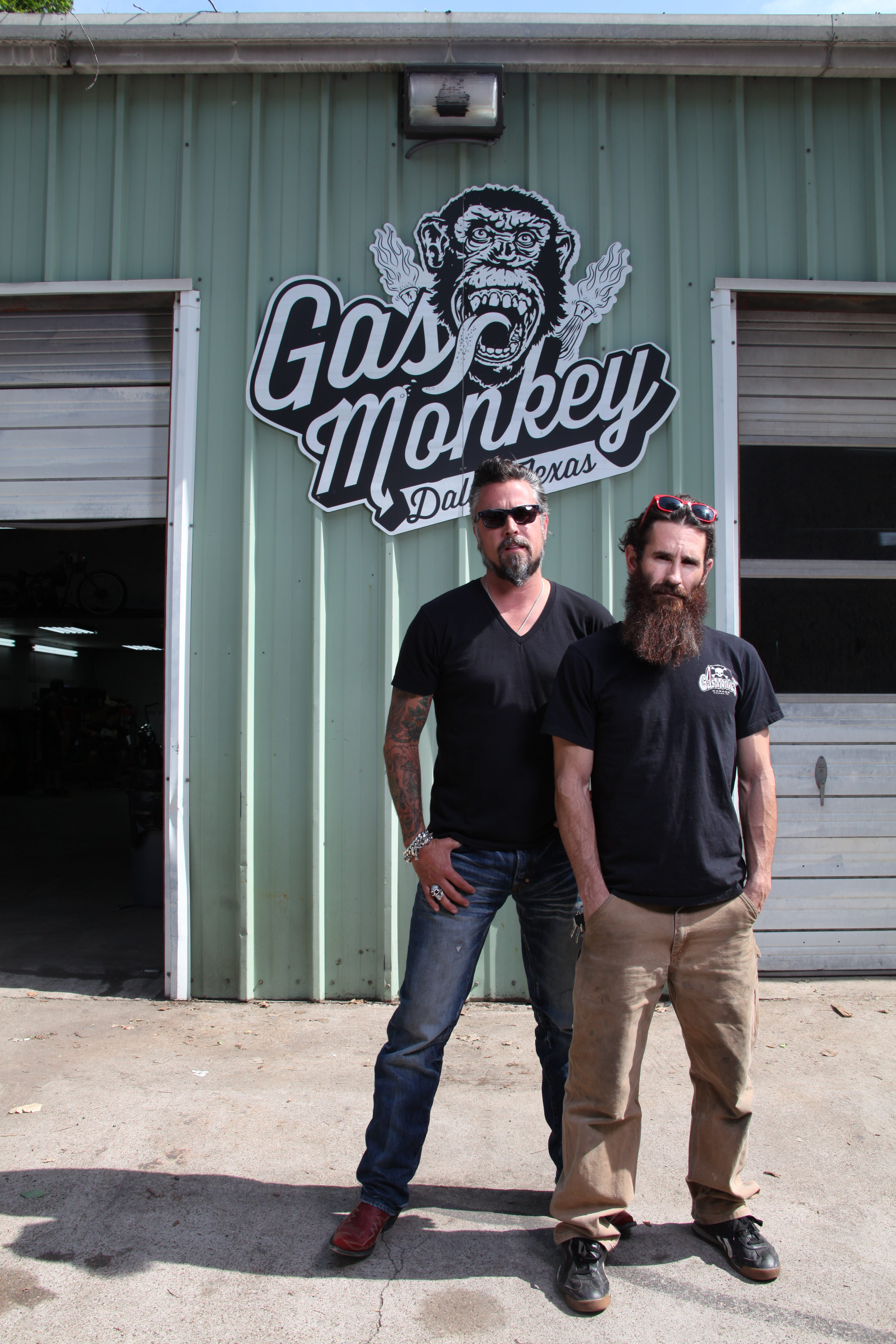 Richard Rawlings with colleague Aaron Kaufmann